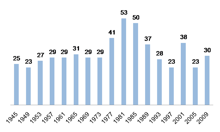 Seats of the Norwegian Conservative Party since 1945.